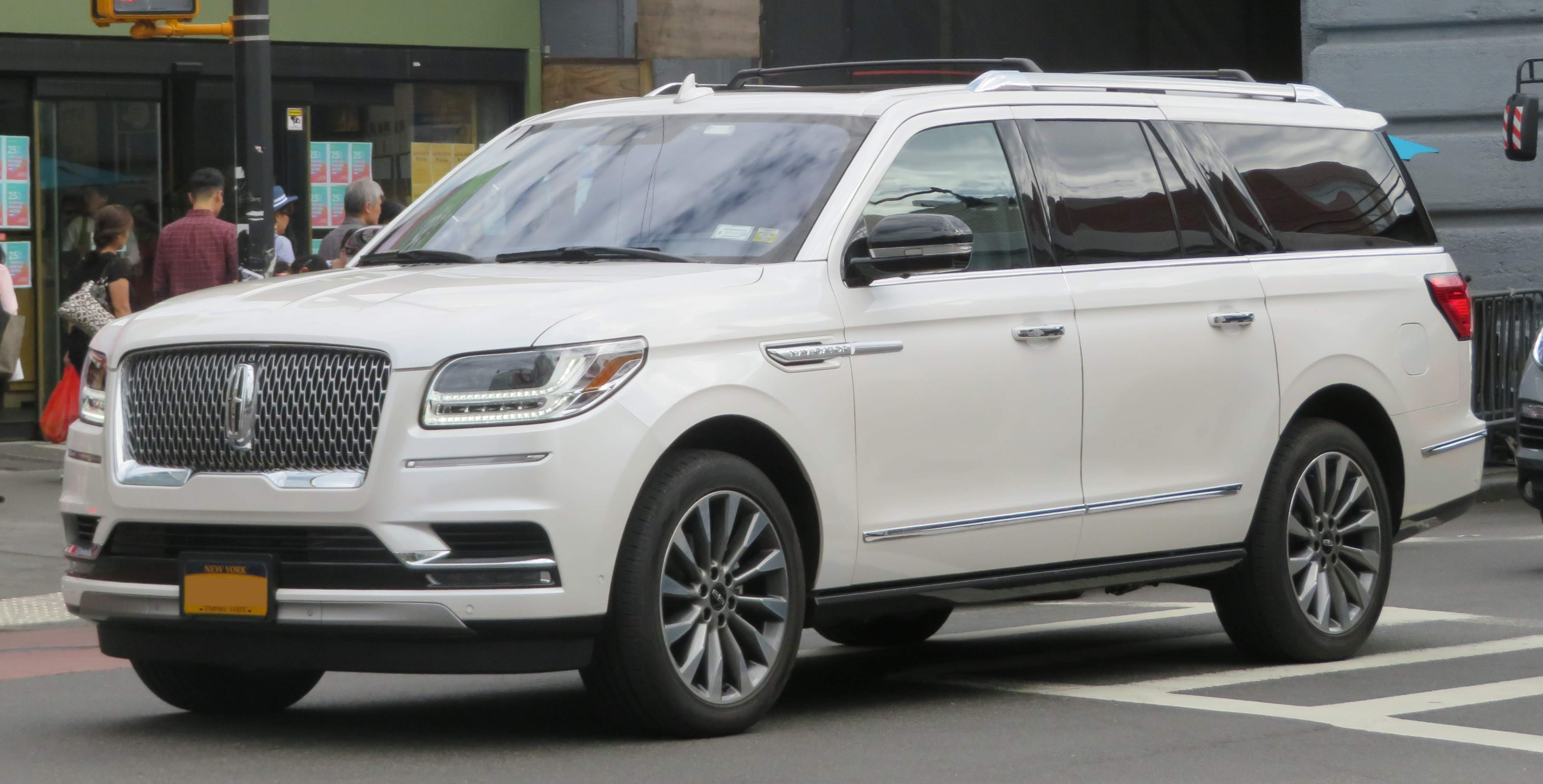 Photographed in Flushing, Queens, New York